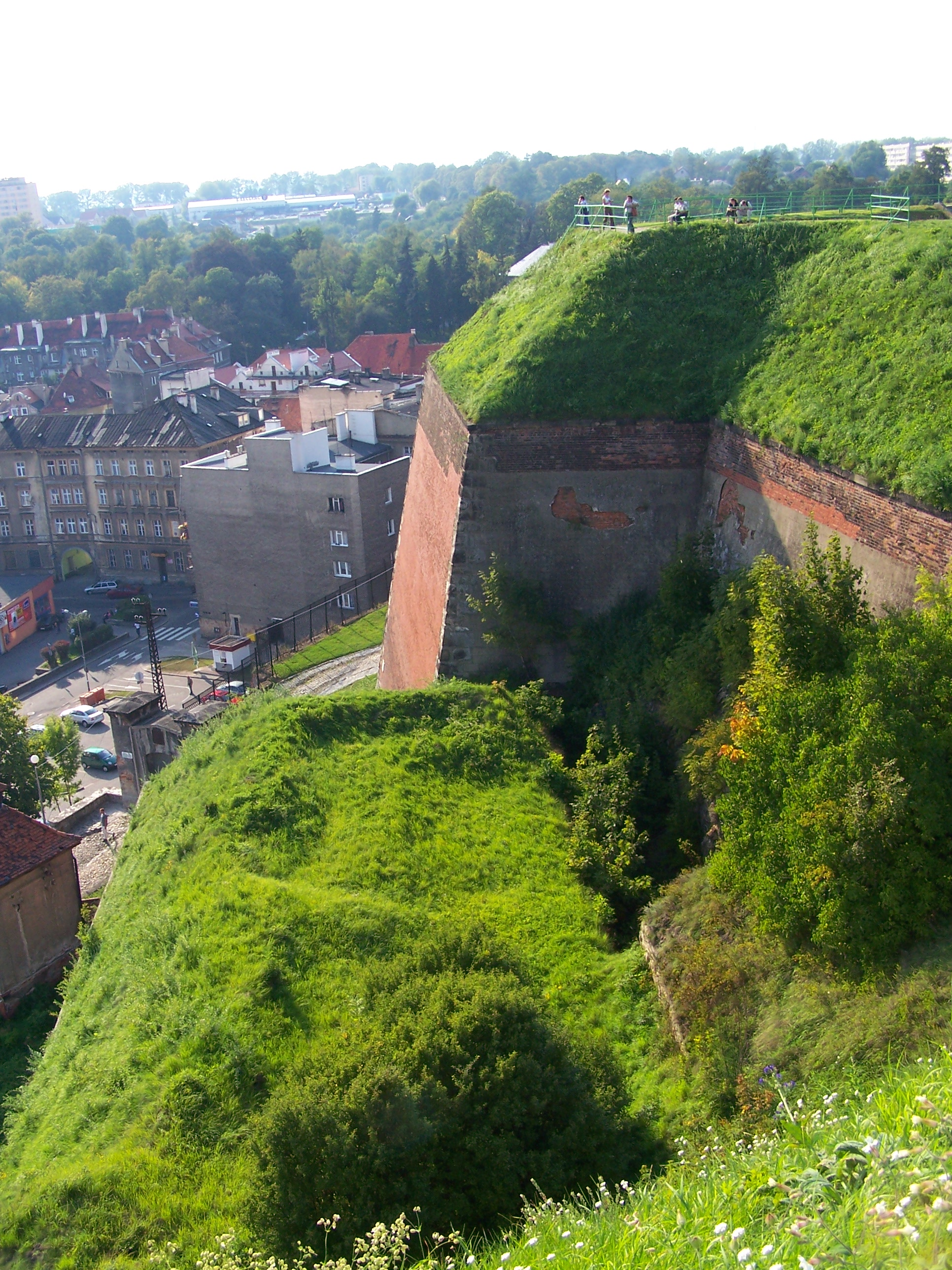 Stronghold in Kłodzko (Lower Silesia, Poland).